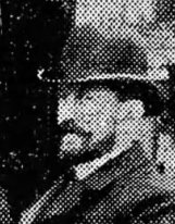 Morrison with his electric vehicle